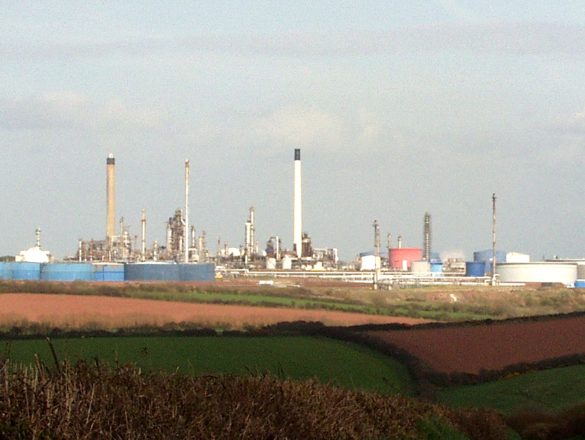 TotalFina refinery near Milford Haven